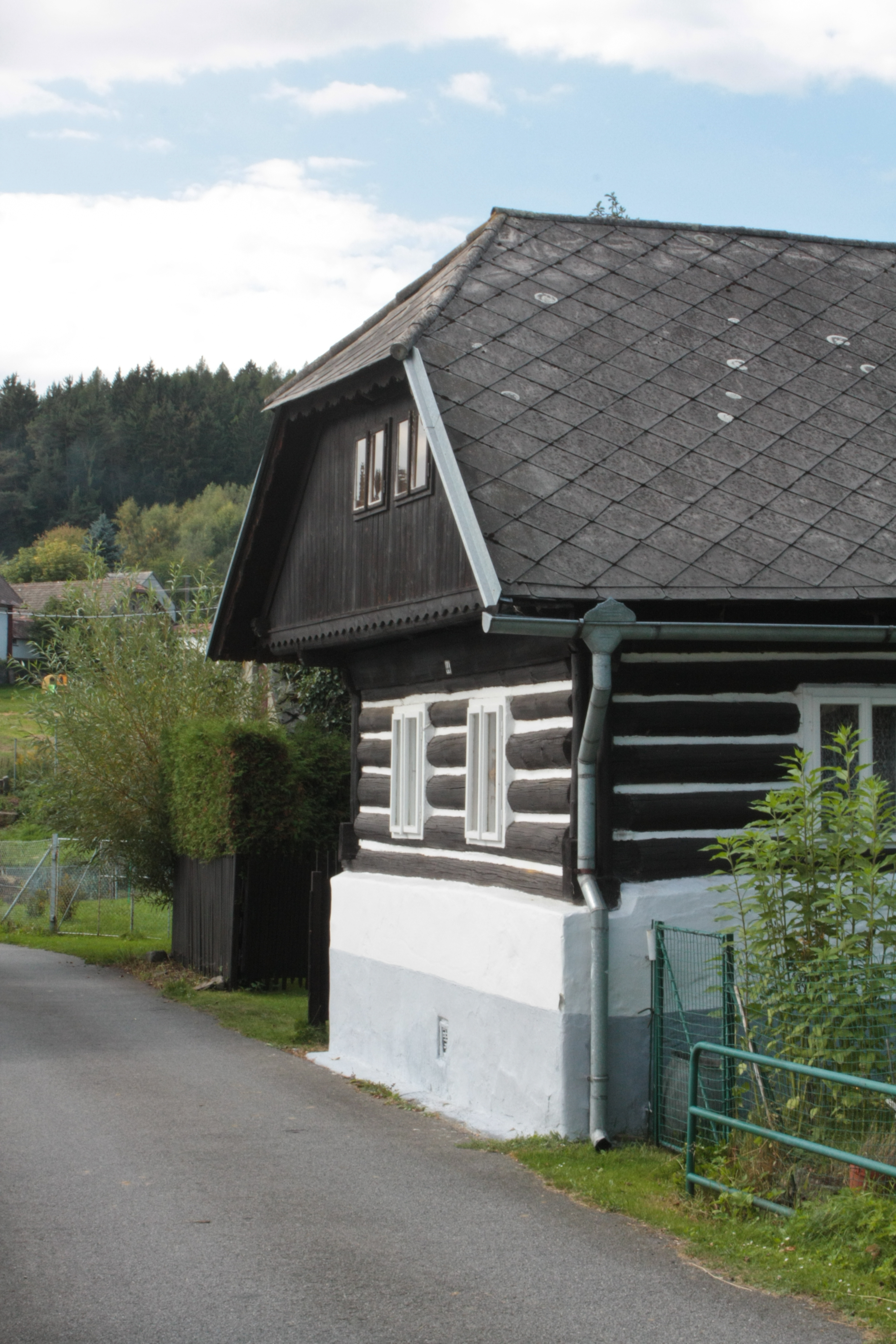 Rohanov, Prachatice District, Czech Republic Object location49° 08′ 01″ N, 13° 42′ 08″ E This photograph was taken within the scope of the Czech 'Photo Workshops' grant.